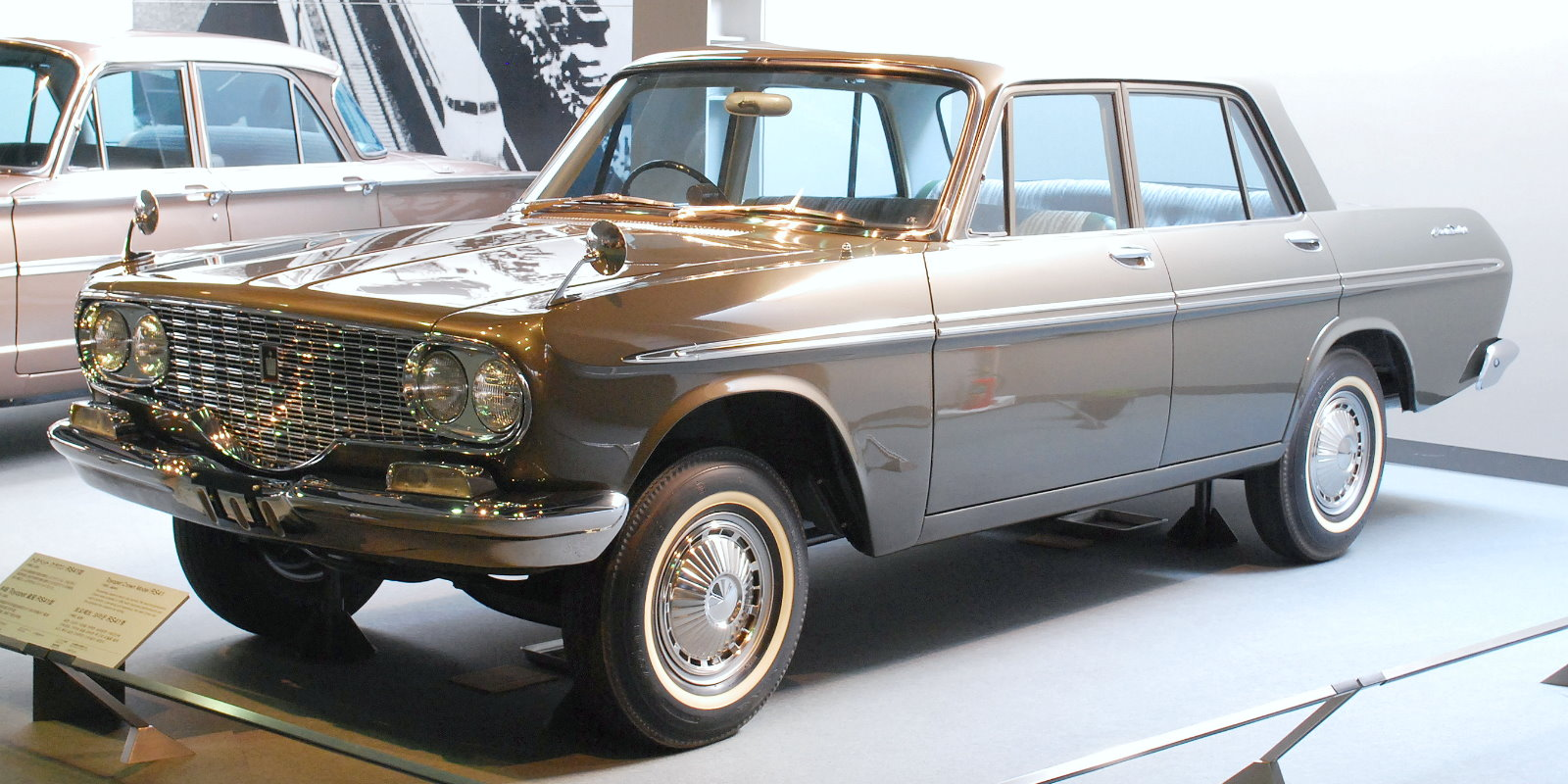 2nd generation Toyopet_Crown Model RS41 (1963/9 - 1965/7)